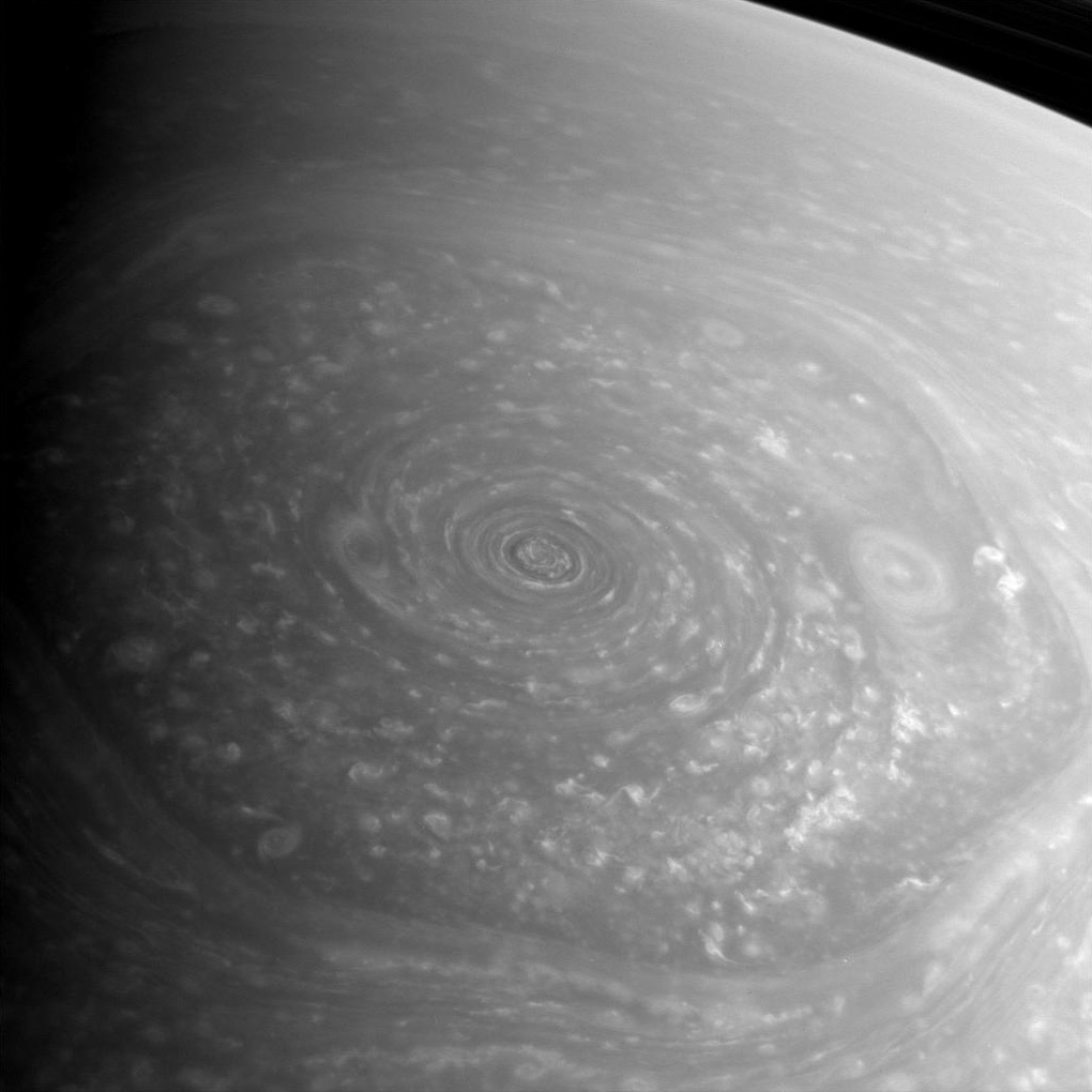 This raw, unprocessed image of Saturn was taken on November 27, 2012 and received on Earth November 27, 2012. The camera was pointing toward Saturn at approximately 376171 kilometers away, and the image was taken using the CB2 and IRP0 filters. The image has not been validated or calibrated. A validated/calibrated image will be archived with the Planetary Data System in 2013. The Cassini Solstice Mission is a joint United States and European endeavor. The Jet Propulsion Laboratory, a division of the California Institute of Technology in Pasadena, manages the mission for NASA's Science Mission Directorate, Washington, D.C. The Cassini orbiter was designed, developed and assembled at JPL. The imaging team consists of scientists from the US, England, France, and Germany. The imaging operations center and team lead (Dr. C. Porco) are based at the Space Science Institute in Boulder, Colo. The original NASA image has been altered by cropping slightly and removal of artifacts.